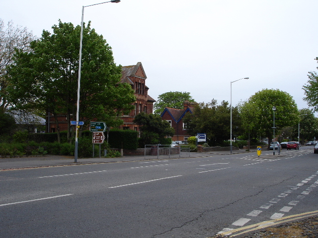 Shorncliffe Road Looking across Shorncliffe Road to South Kent College.